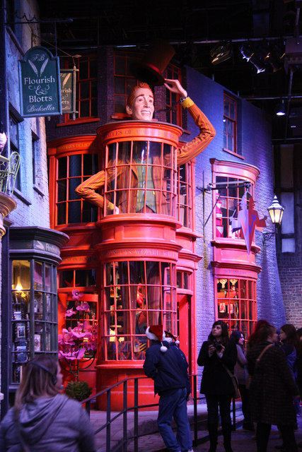 Joke shop at 93 Diagon Alley owned by Fred and George Weasley in the Harry Potter films, a popular feature of the Warner Brothers Studio Tour.